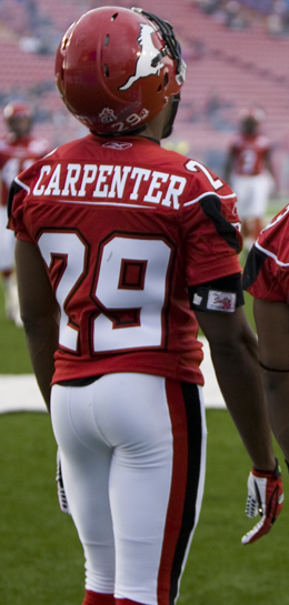 Dwaine Carpenter (left) and teammate Shannon James (right).